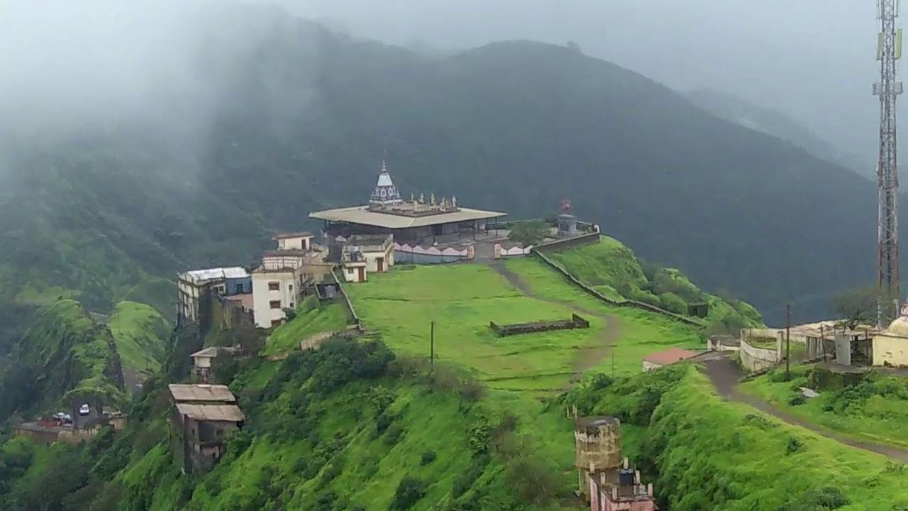 Arial view of gagangad